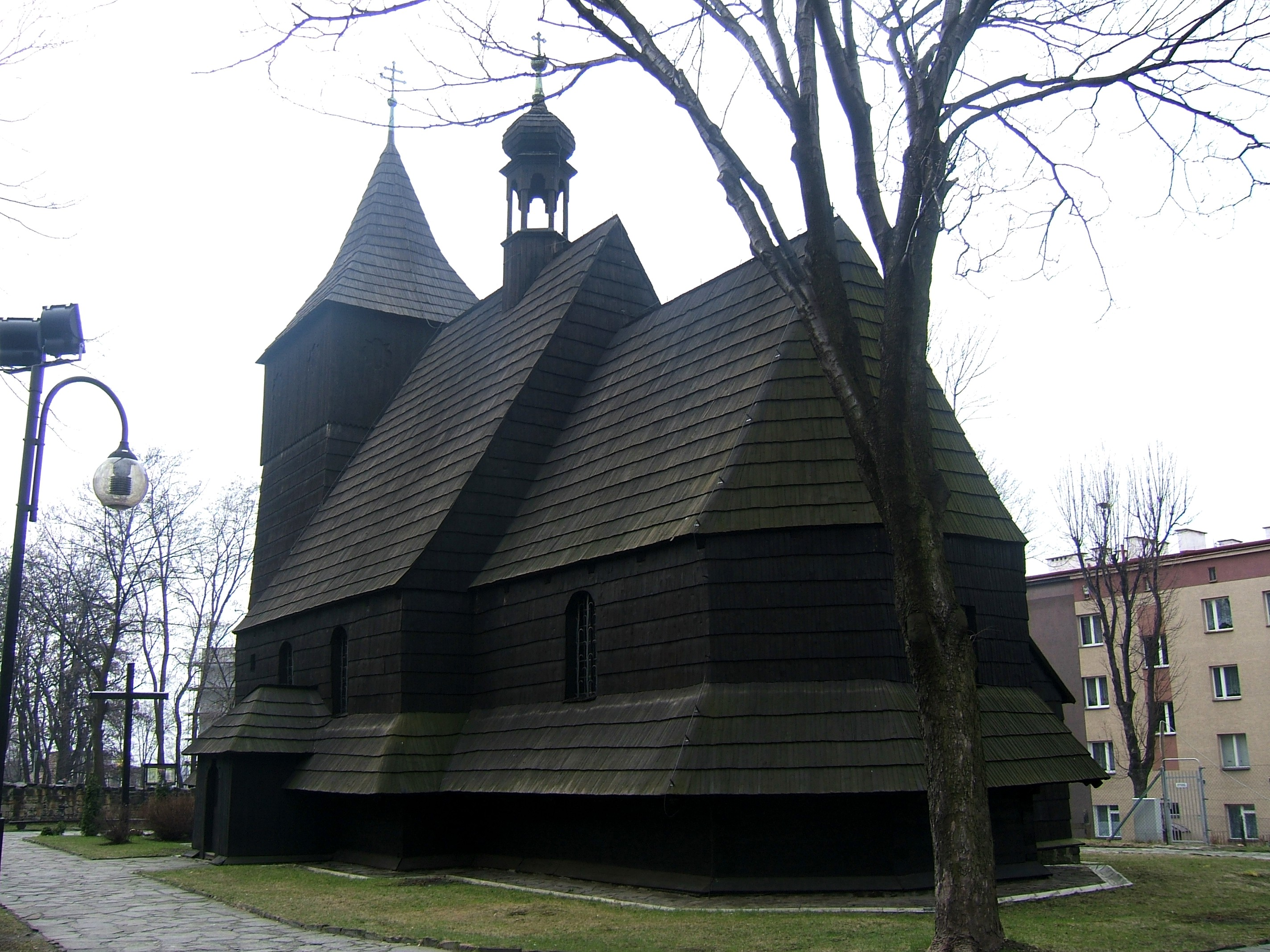 The wooden church of St. Lawrence (16th cent.) in Chorzów.